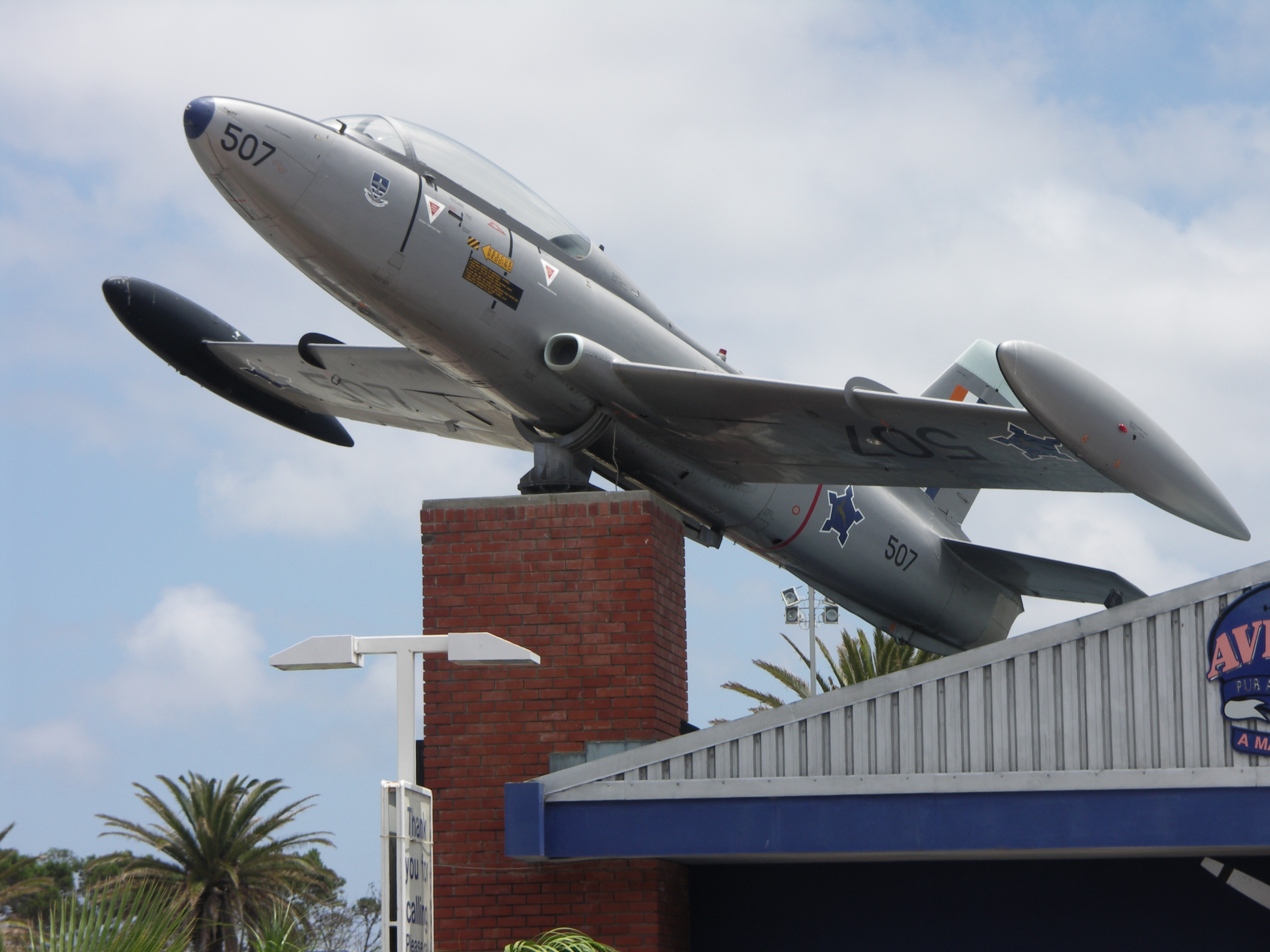 Impala Mk1 (Aermacchi MB-326) no. 507 on permanent display at the entrance of Port Elizabeth Airport, Eastern Cape, South Africa